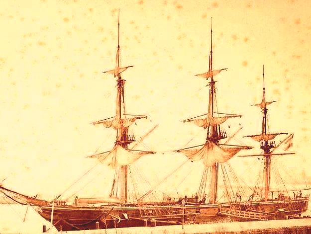 Vice-admiraal Koopman